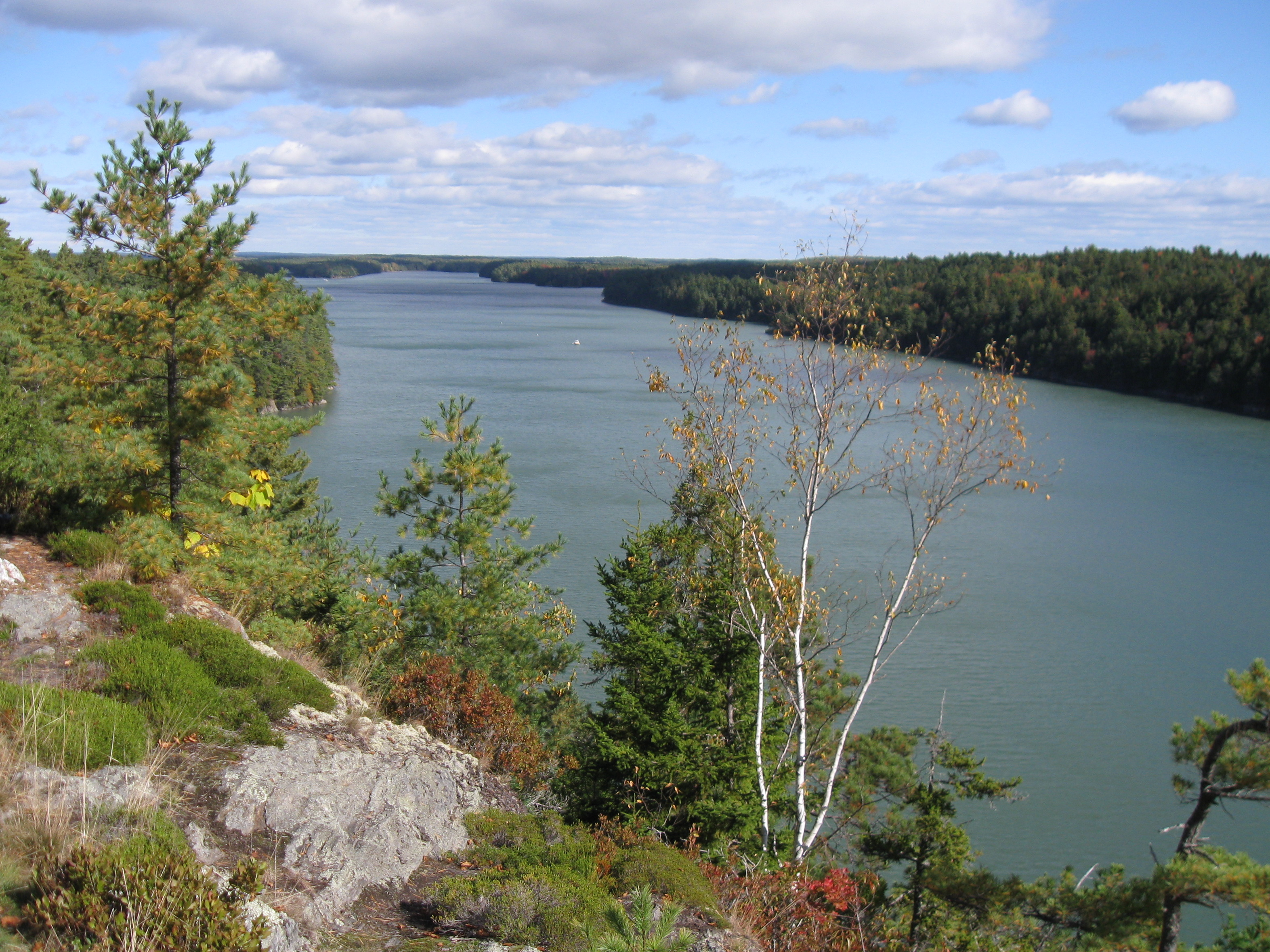 Long Reach, a tidal inlet surrounded by Sebascodegan Island in Maine.